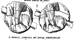 Sancho, Count of Provence (1161-1223)